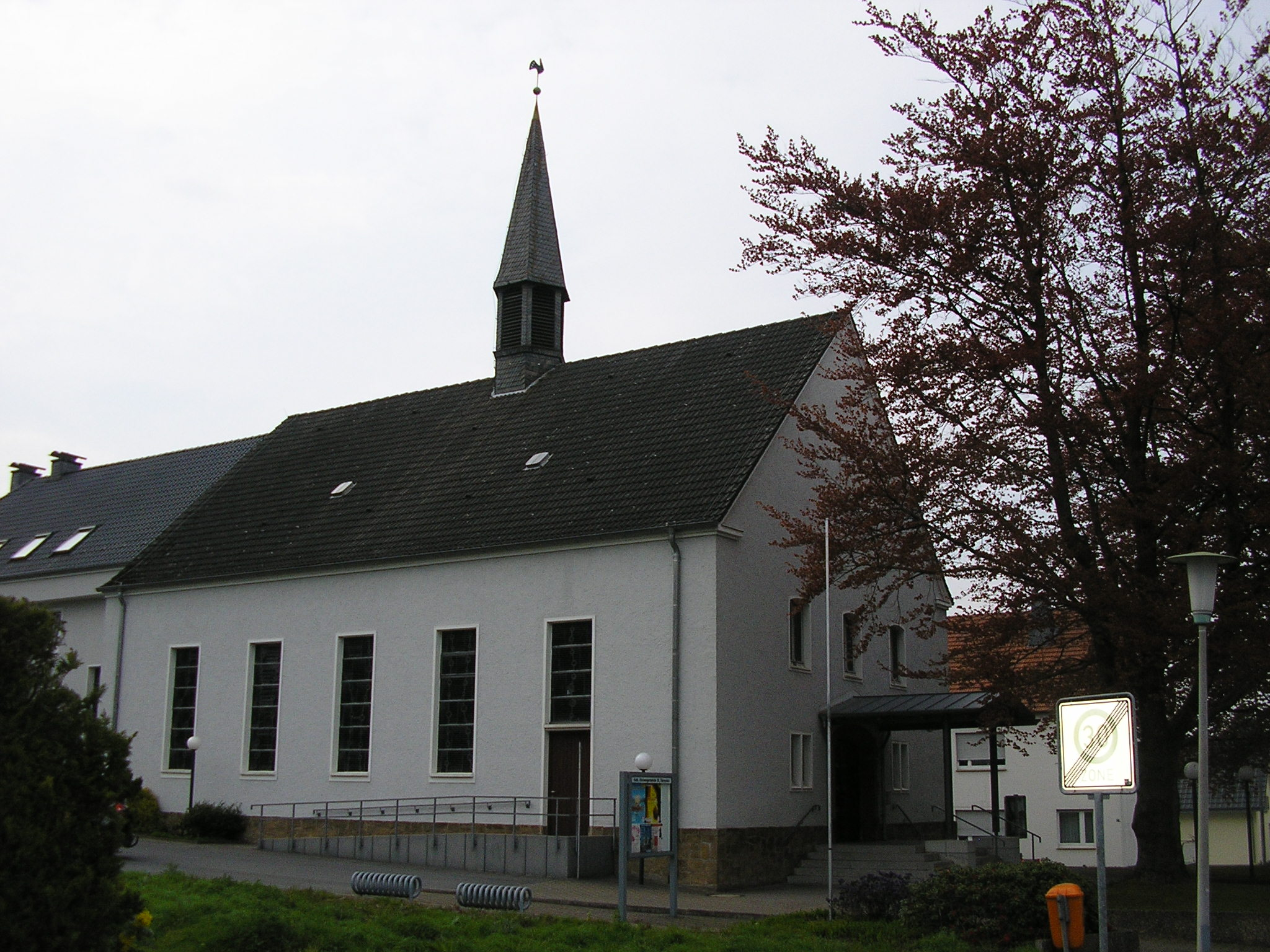 Roman-catholic church in Enger, District of Herford, North Rhine-Westphalia, Germany.